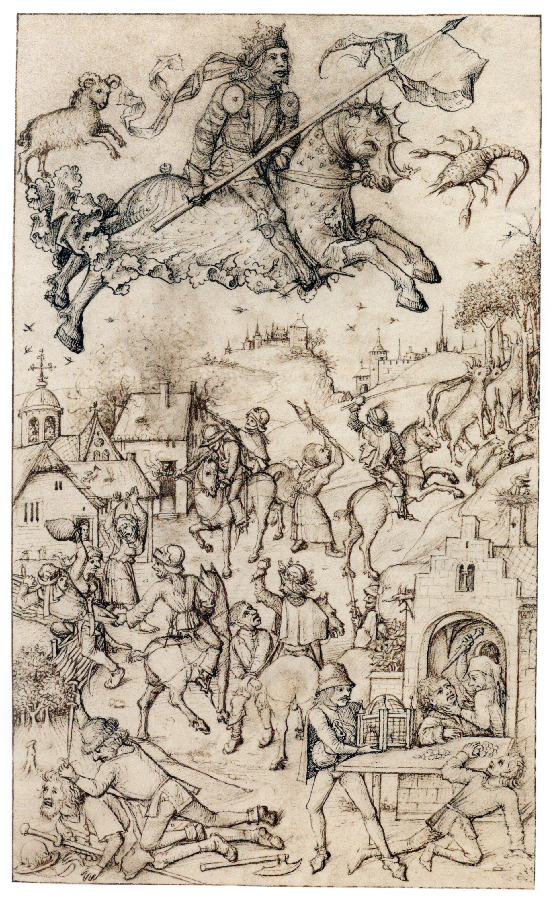 Mittelalterliches Hausbuch von Schloss Wolfegg Fol. 13r: Mars und seine Kinder Master of the Housebook (fl. between 1475 and 1500) Alternative namesMaster of the House-Book, Master of the Amsterdam Cabinet, Master of 1480DescriptionGerman painter, draughtsman and engraverDate of birth/death14501500Work periodbetween 1475 and 1500Work locationMiddle Rhine, Heidelberg (?), Mainz (?)Authority control : Q460300 VIAF: 79397502 ULAN: 500002780 WGA: MASTER of the Housebook GND: 118546961 RKD: 115714